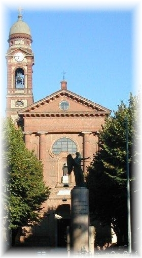 Church of Carcare, Savona, Liguria, Italy